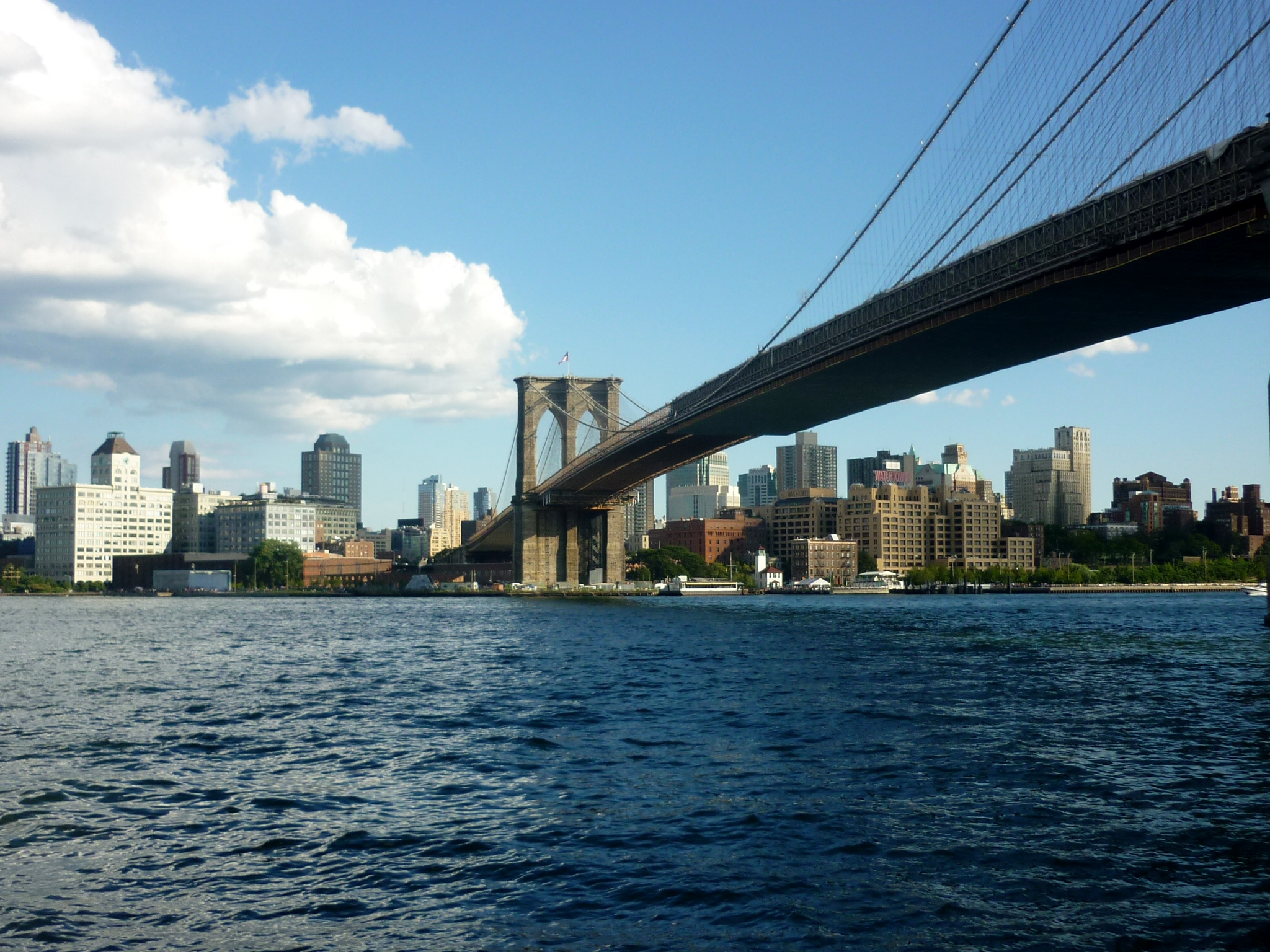 Brooklyn Bridge, New York (viewd from Manhattan)